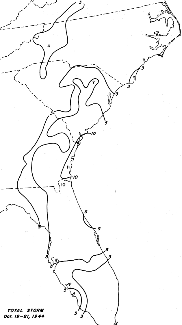 Rainfall totals associated with a hurricane in October 1944 that struck Florida and the Southeastern United States.